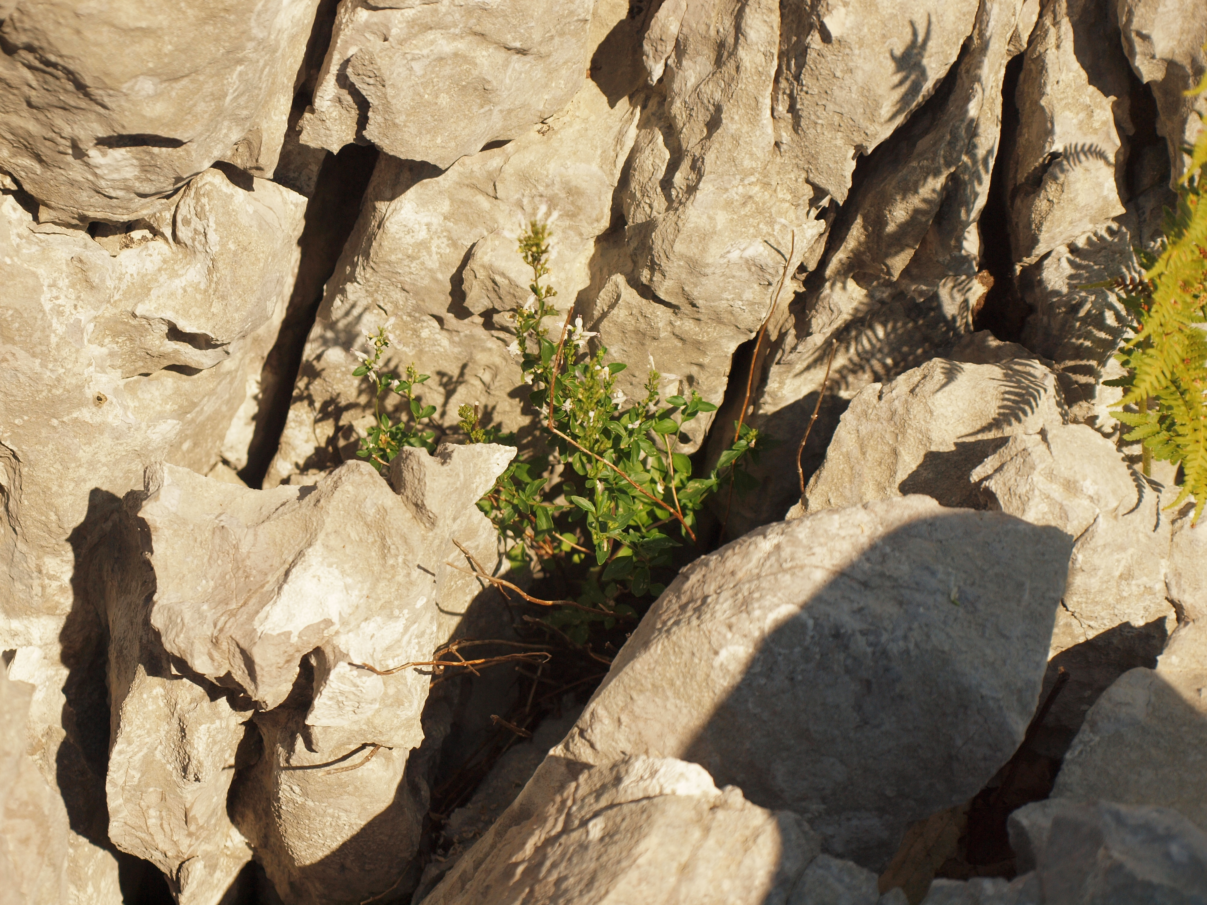 Clinopodium thymifolium, Mt Orjen, Ledenice Bijela gora Montenegro